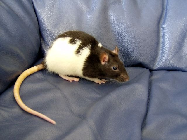 An image showing a brown hooded rat